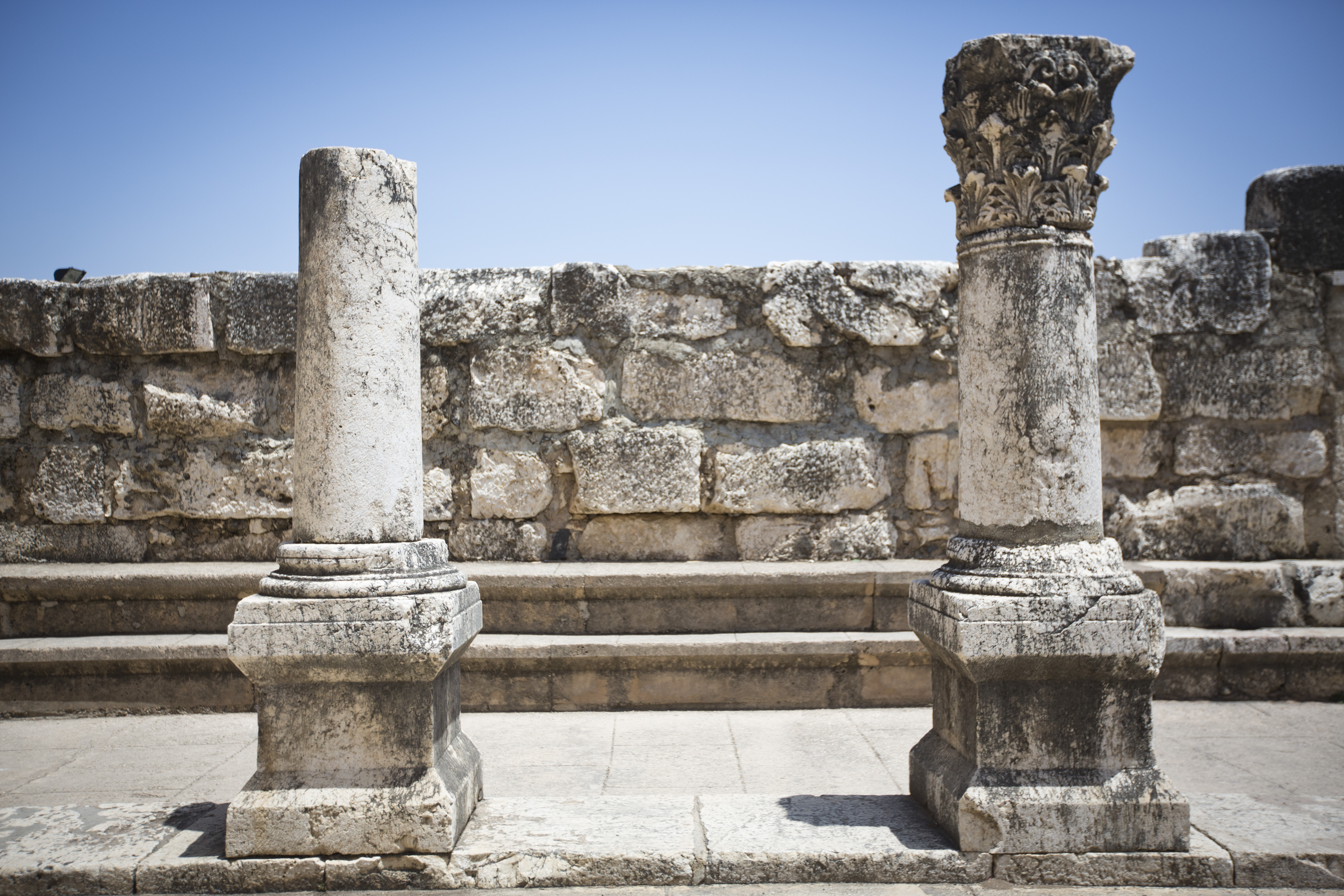 A photo from Capernaum at the ancient synagogue area